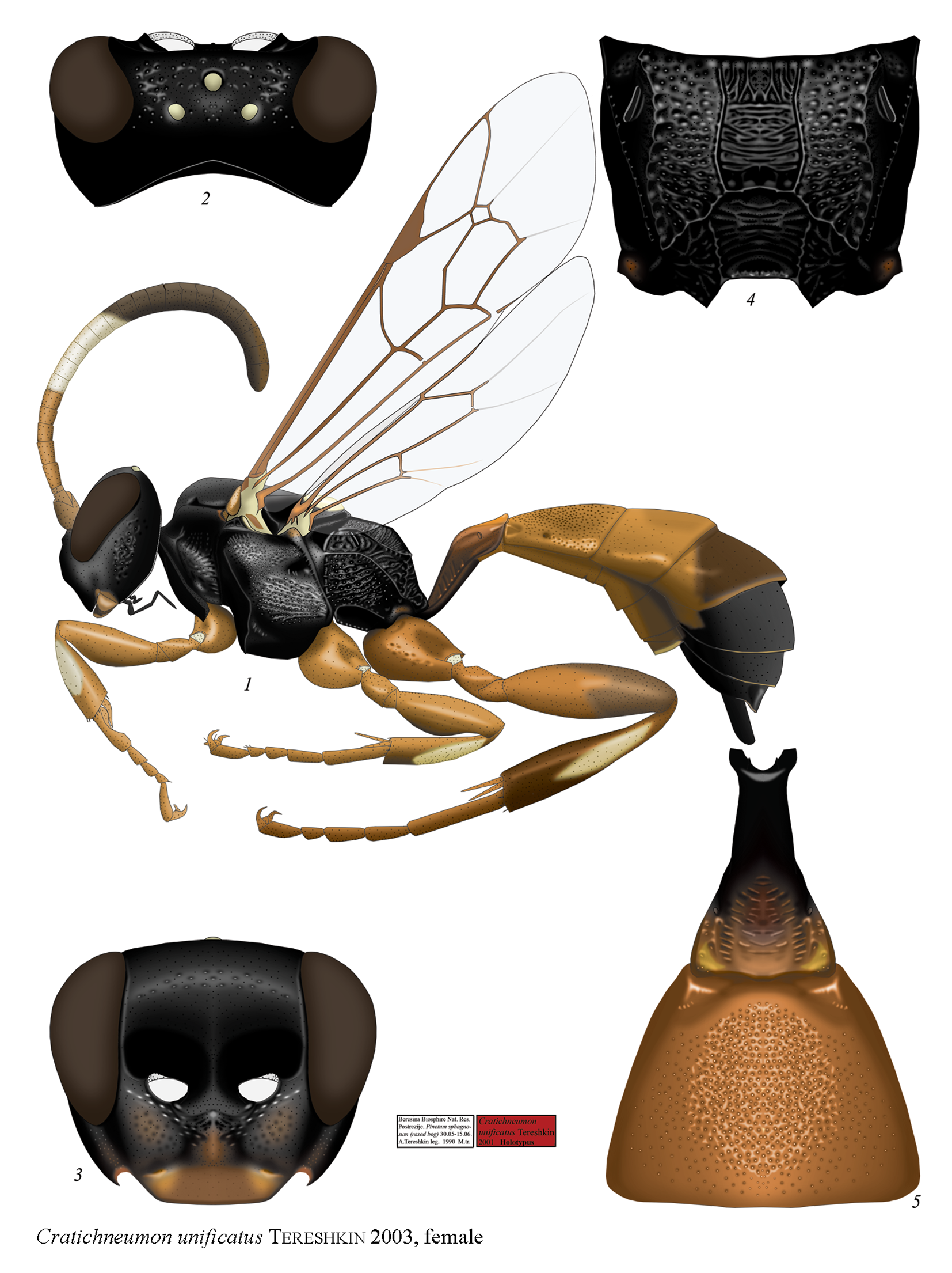 Cratichneumon unificatus Tereshkin, female.